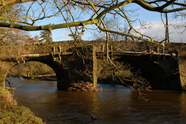 The Newforge Bridge, Magheralin See 300832. This is the Newforge (“Forge” on the OS map) Bridge. It carries the Magheralin-Donaghcloney road across the River Lagan. The view is downstream with Magheralin to the left.